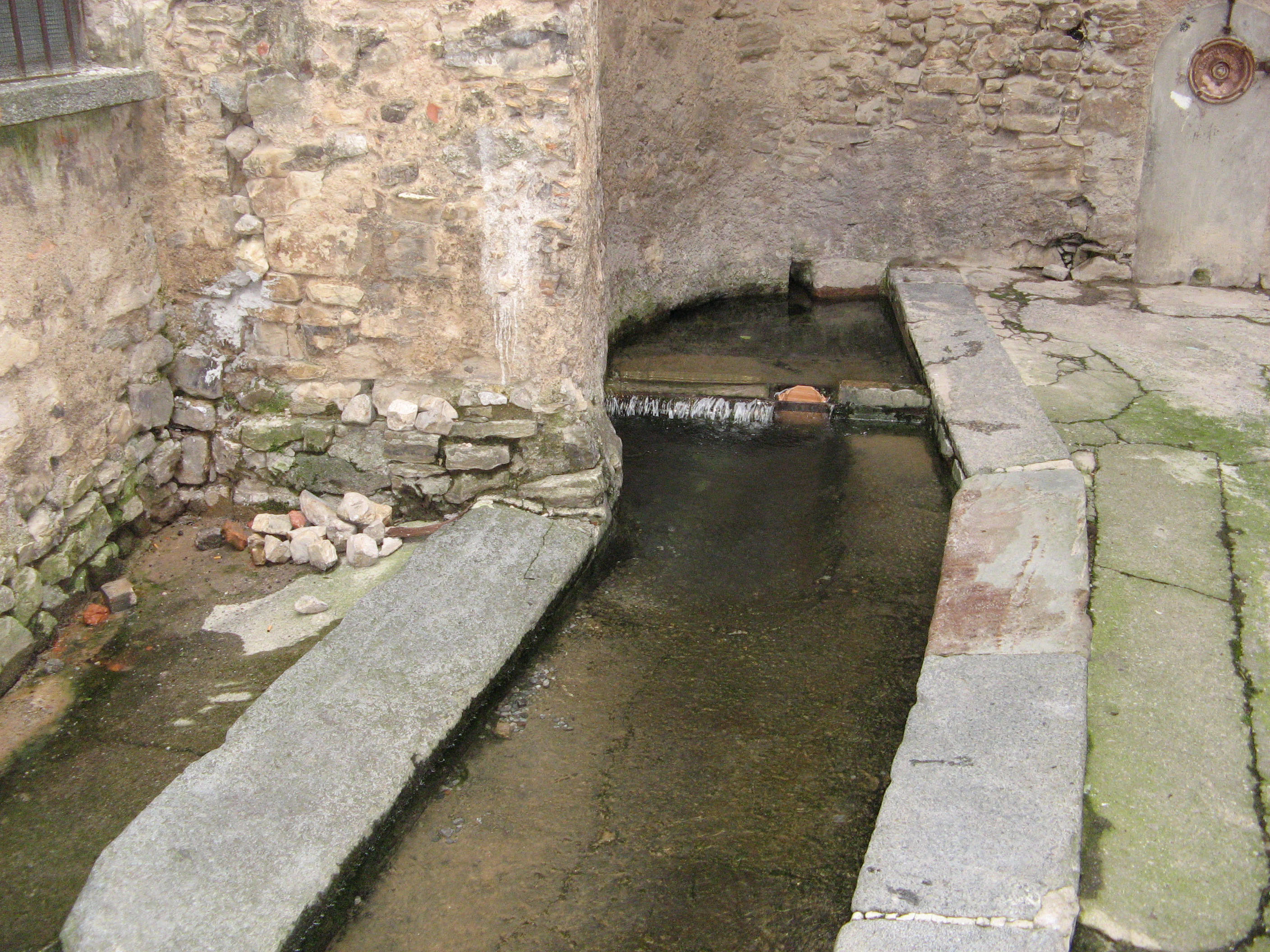 Old washtub located in the historic center of Albavilla, used in the past by housewives to wash clothes